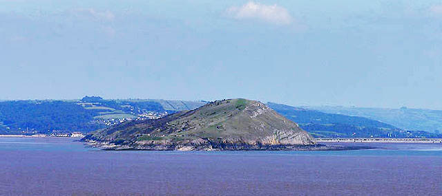 Brean Down from Steepholm